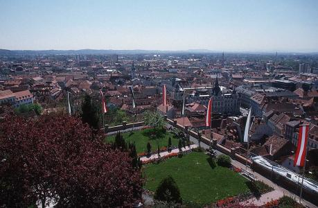 View from Schlossberg to the south of Graz